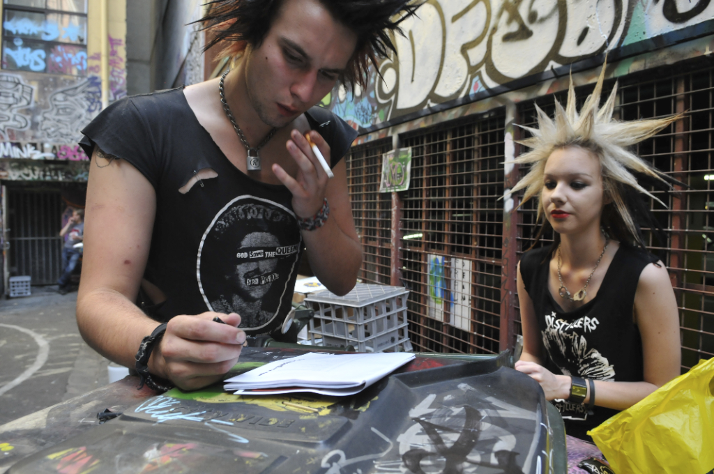 Troy Ramone and Bunny Melbourne 07